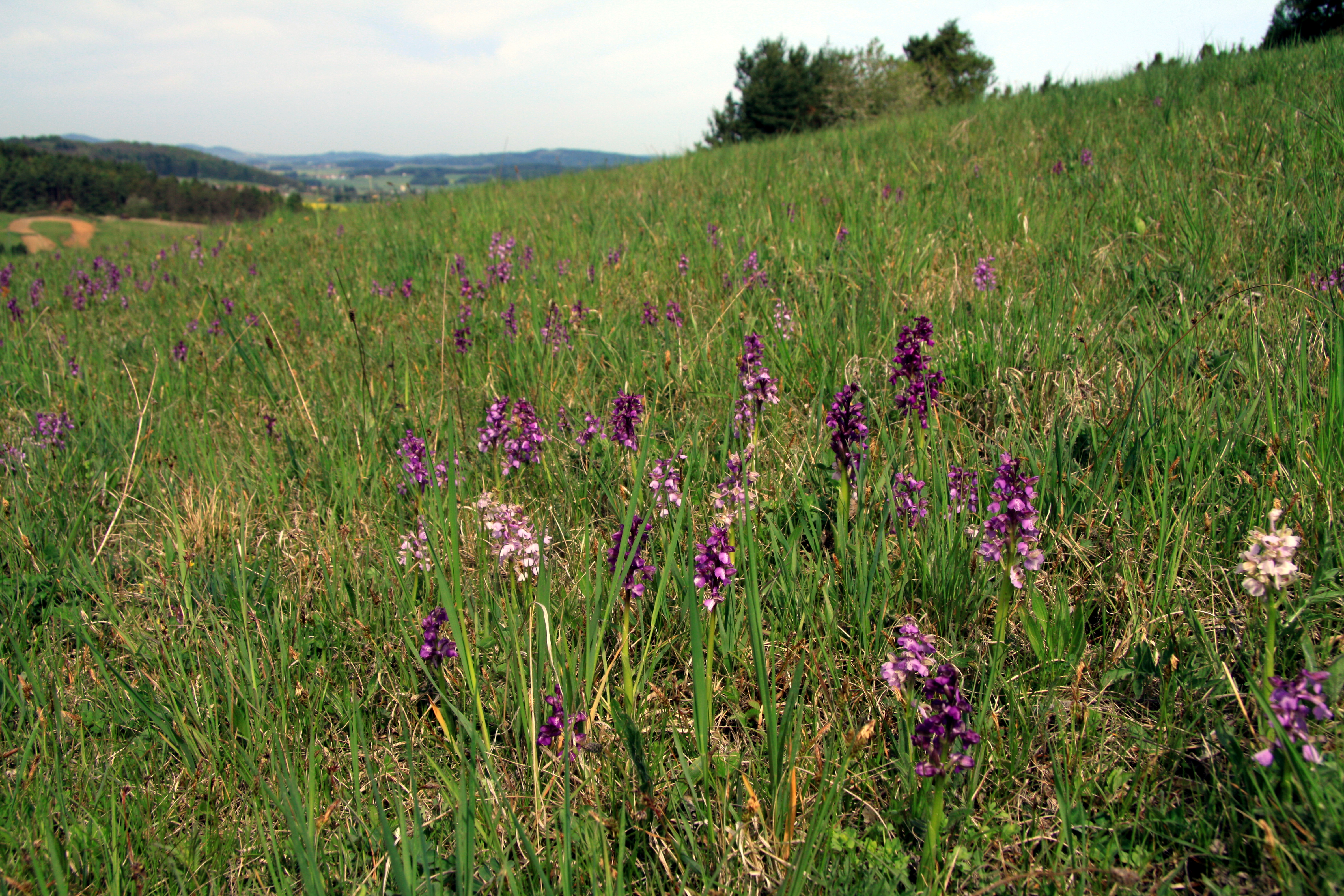 Natural monument Svaté Pole near Svaté Pole village in Klatovy District, Czech Republic Project: Chráněná území.